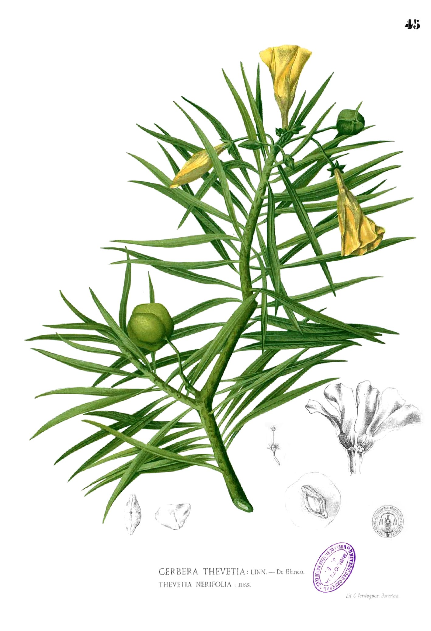 Plate from book